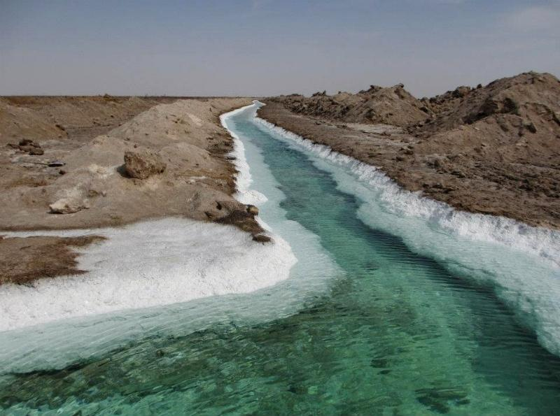 Dasht-e Kavir desert in Iran